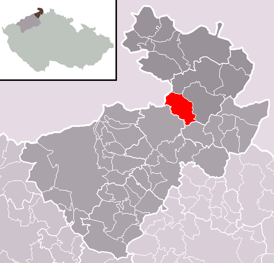 Location of Doubice municipality within Děčín District and administrative area of Rumburk as a Municipality with Extended Competence.